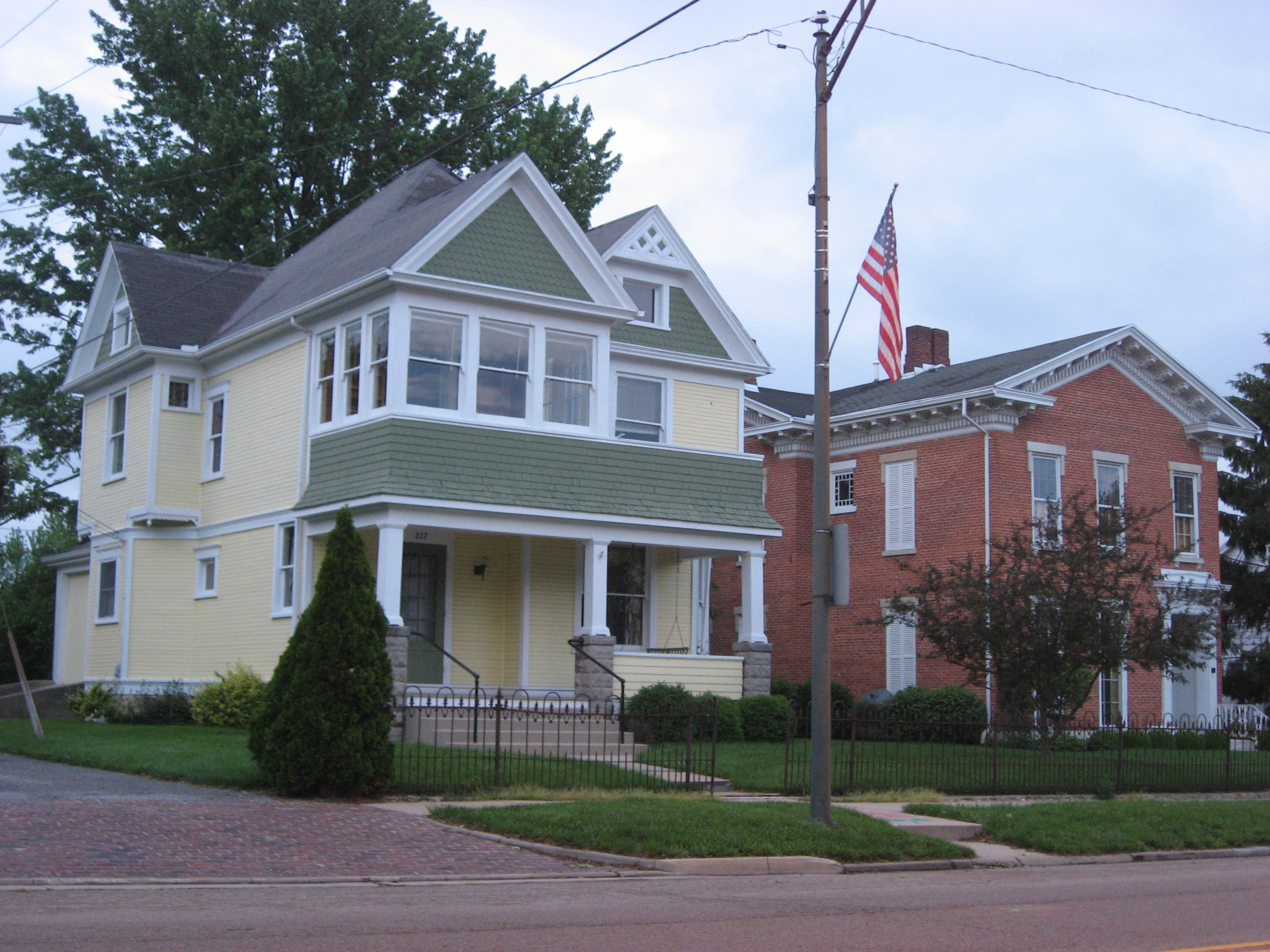 Houses on the northern side of the 300 block of W. Main Street (State Route 571) in Tipp City, Ohio, United States. This block is part of the Old Tippecanoe Main Street Historic District, a historic district that is listed on the National Register of Historic Places.